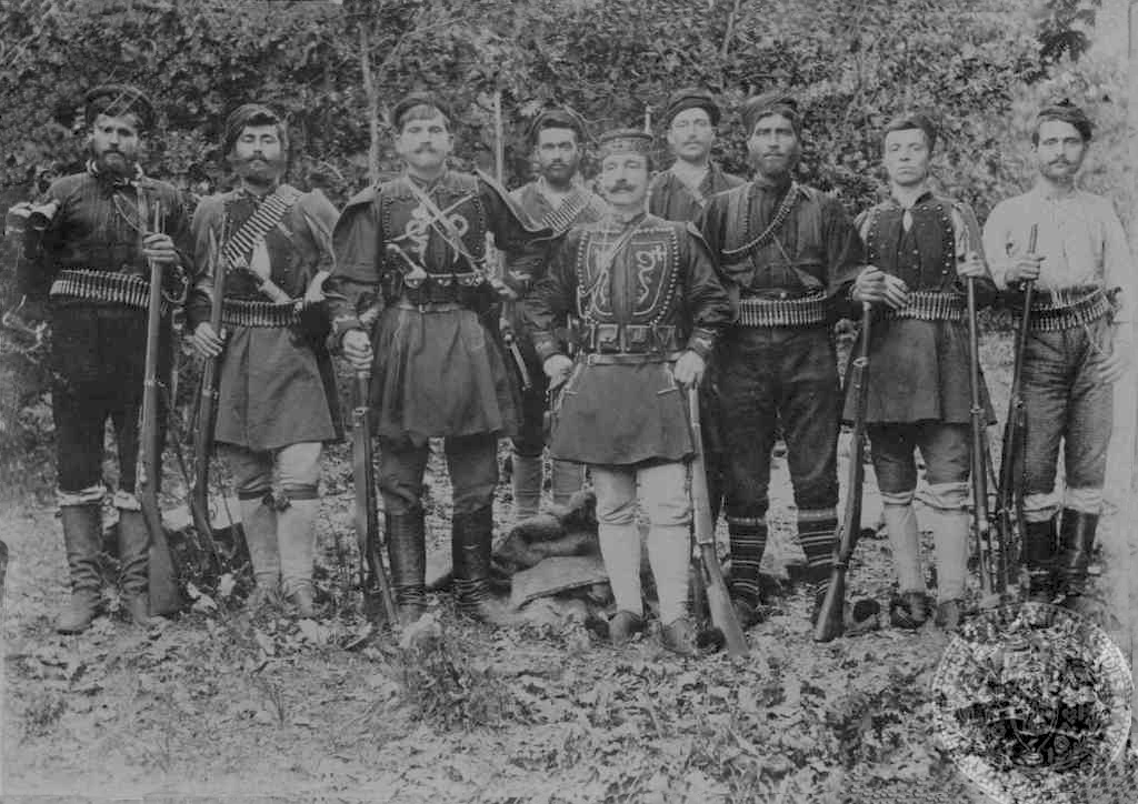 Guerilla group of Kapetan Vardas (Georgios Tsondos)